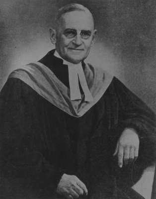 Rev. A.P. Menzies